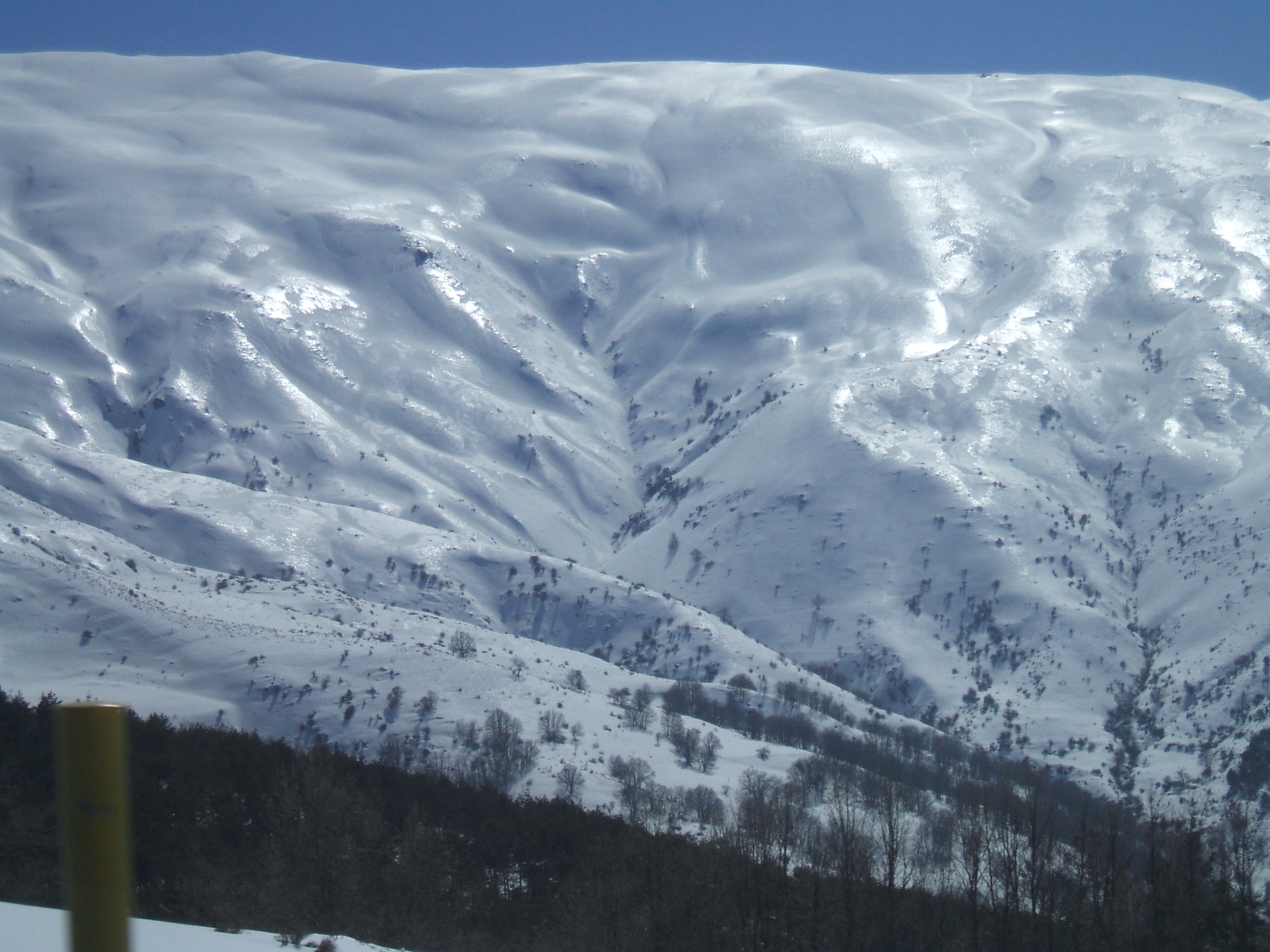 Sierra Nevada, Granada, Spain.